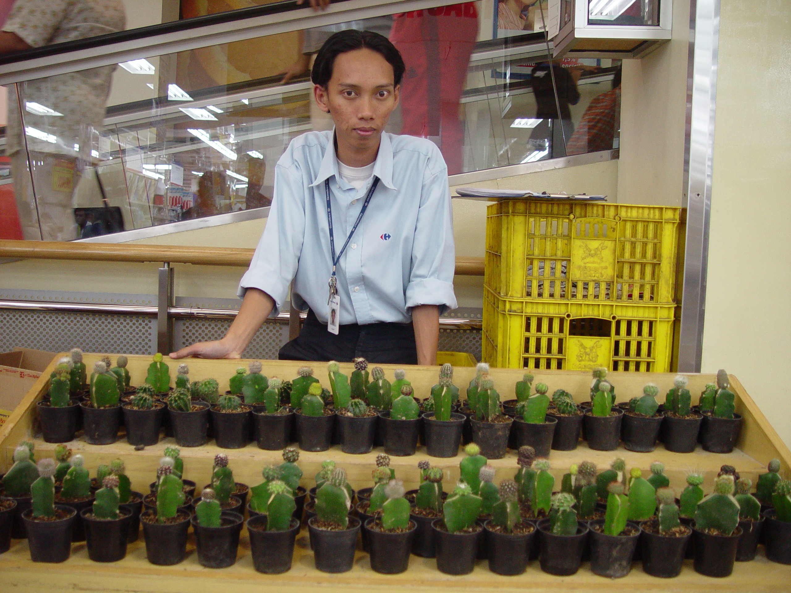 Mall cultural in Jakarta, Indonesia.